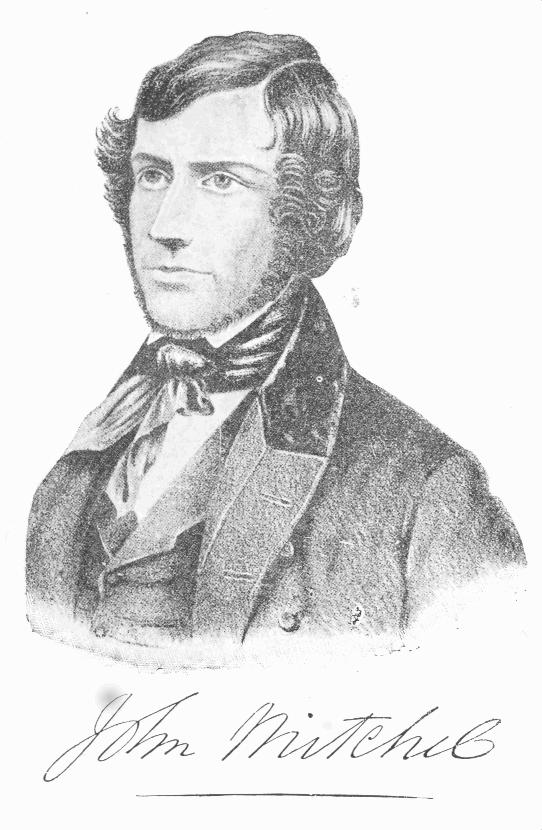 Contemporary portrait of John Mitchel, Irish political activist.